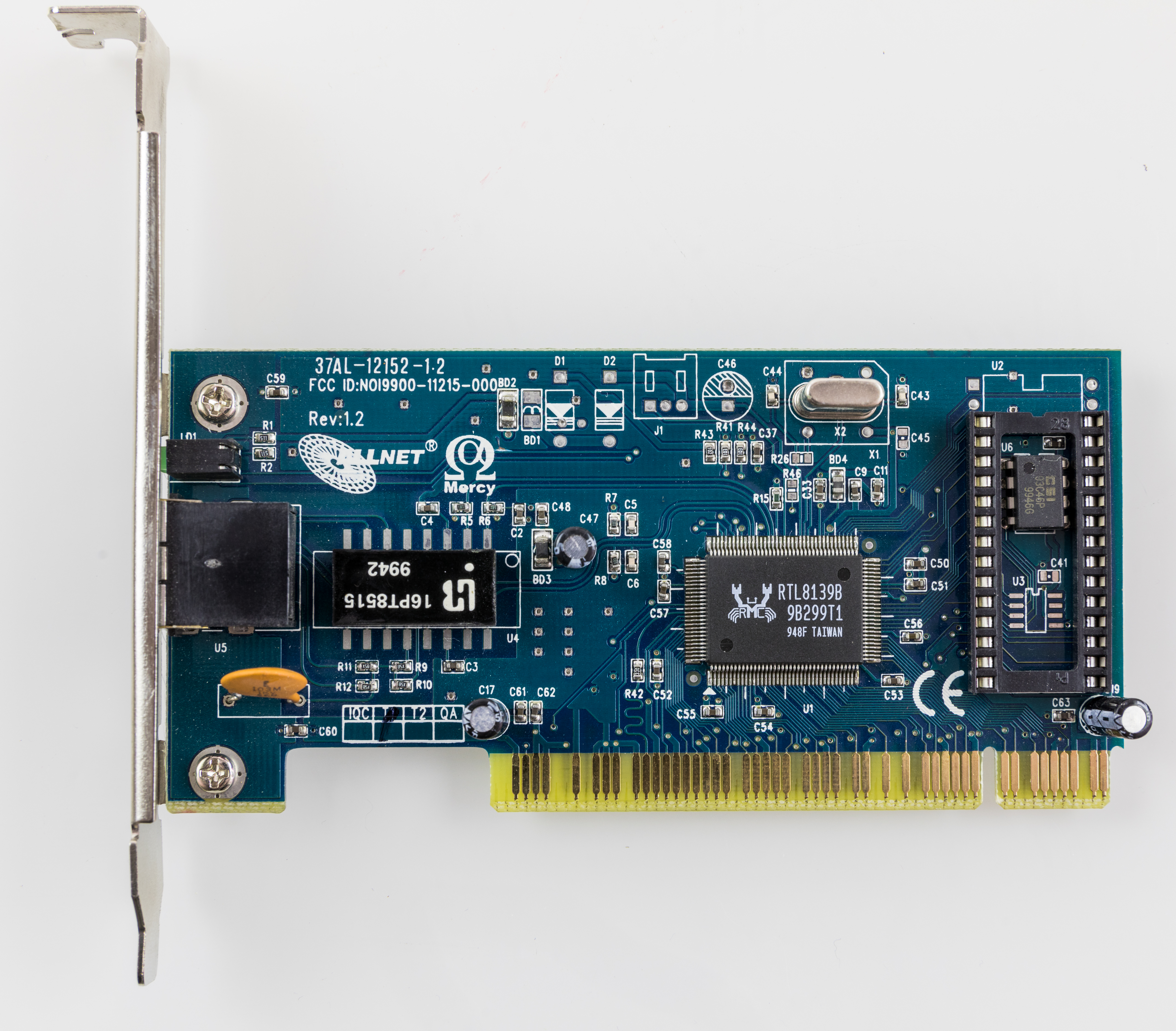 ALLNET ALL0118 - 10/100 Fast Ethernet PCI Adapter. FCC ID: 9900-11215-001, registered by Netronix Inc - NOI (Taiwan)